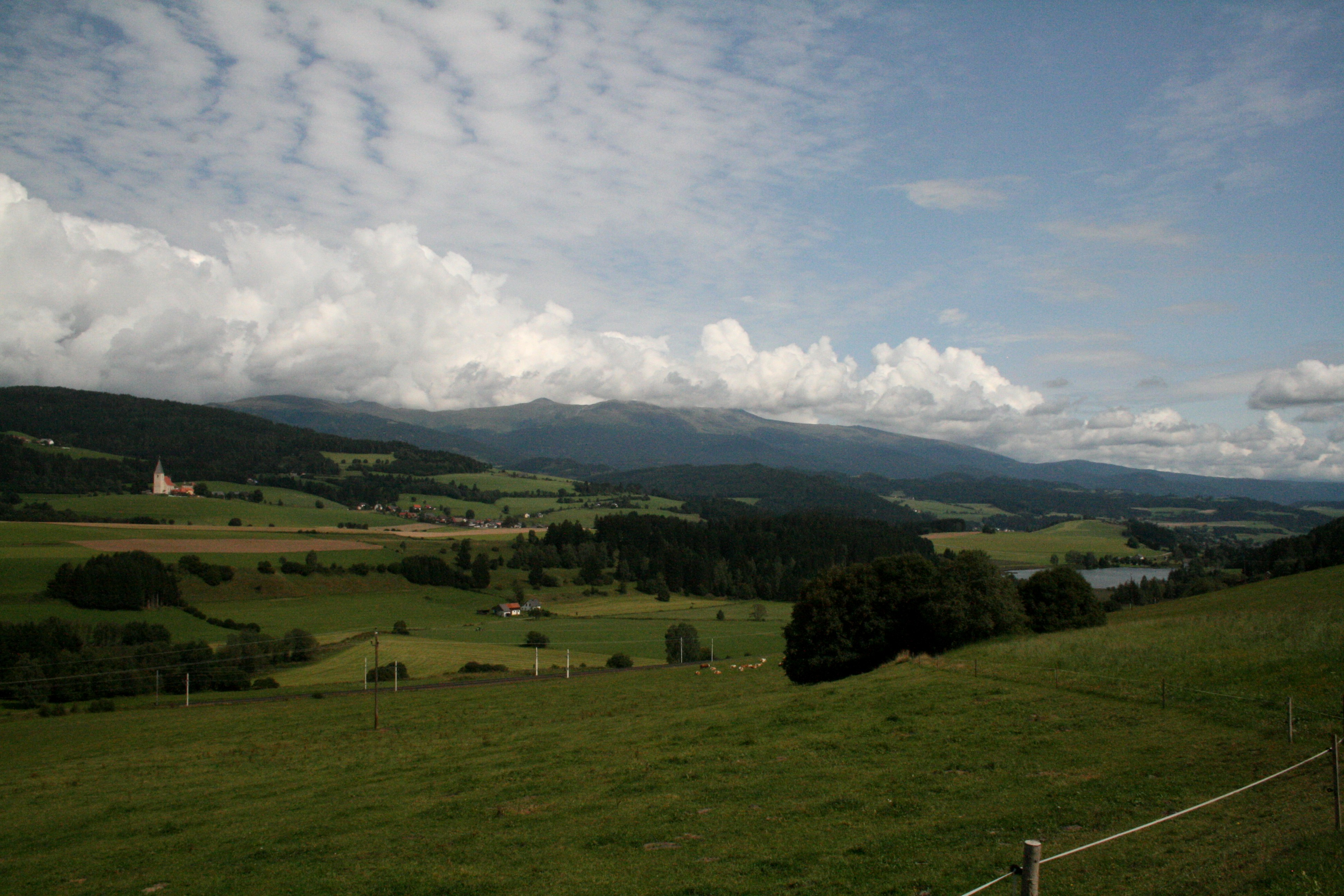 Mariahof, Styria, Austria